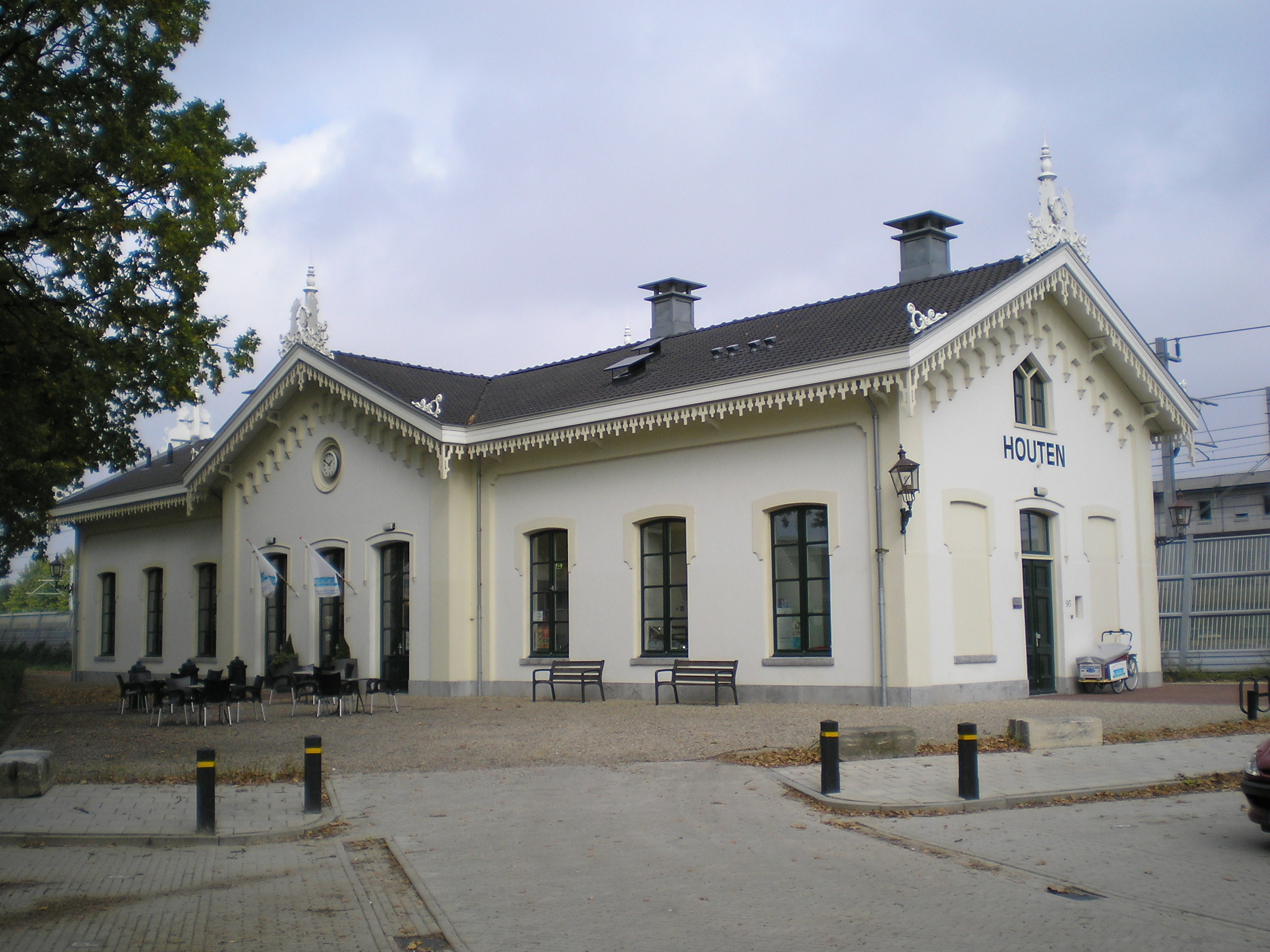 Houten old station in the Netherlands